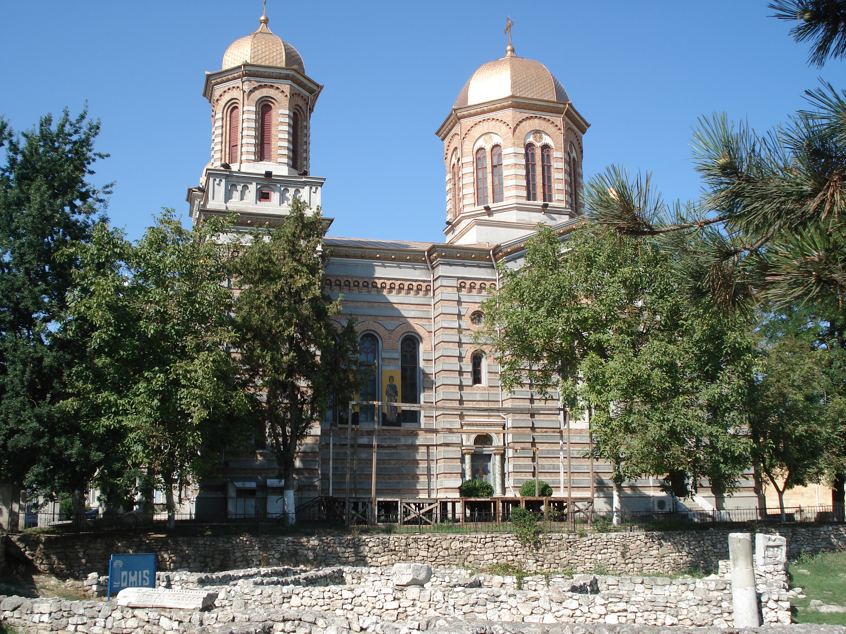 Holy Apostles Peter and Paul Romanian Orthodox Episcopal cathedral in Constanta, built in 1883-1885 by Ion Mincu. In the foreground, ruins of the ancient city of Tomis